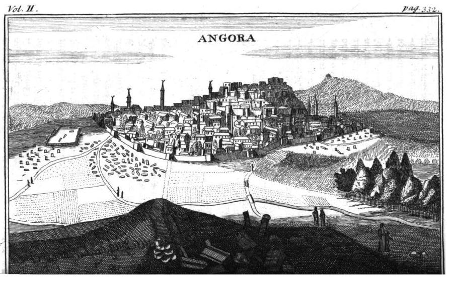 Drawing of Angora (Ankara) from "Relation d'un voyage du Levant, fait par ordre du roy: fait par ordre du roy" vol. 3, by Joseph Pitton de Tournefort.